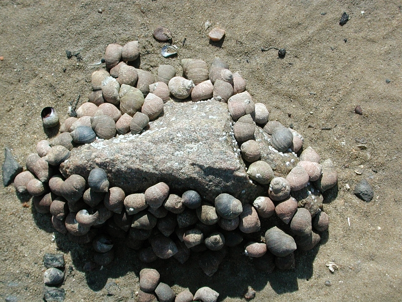 Littorina littorea, Sylt, Germany